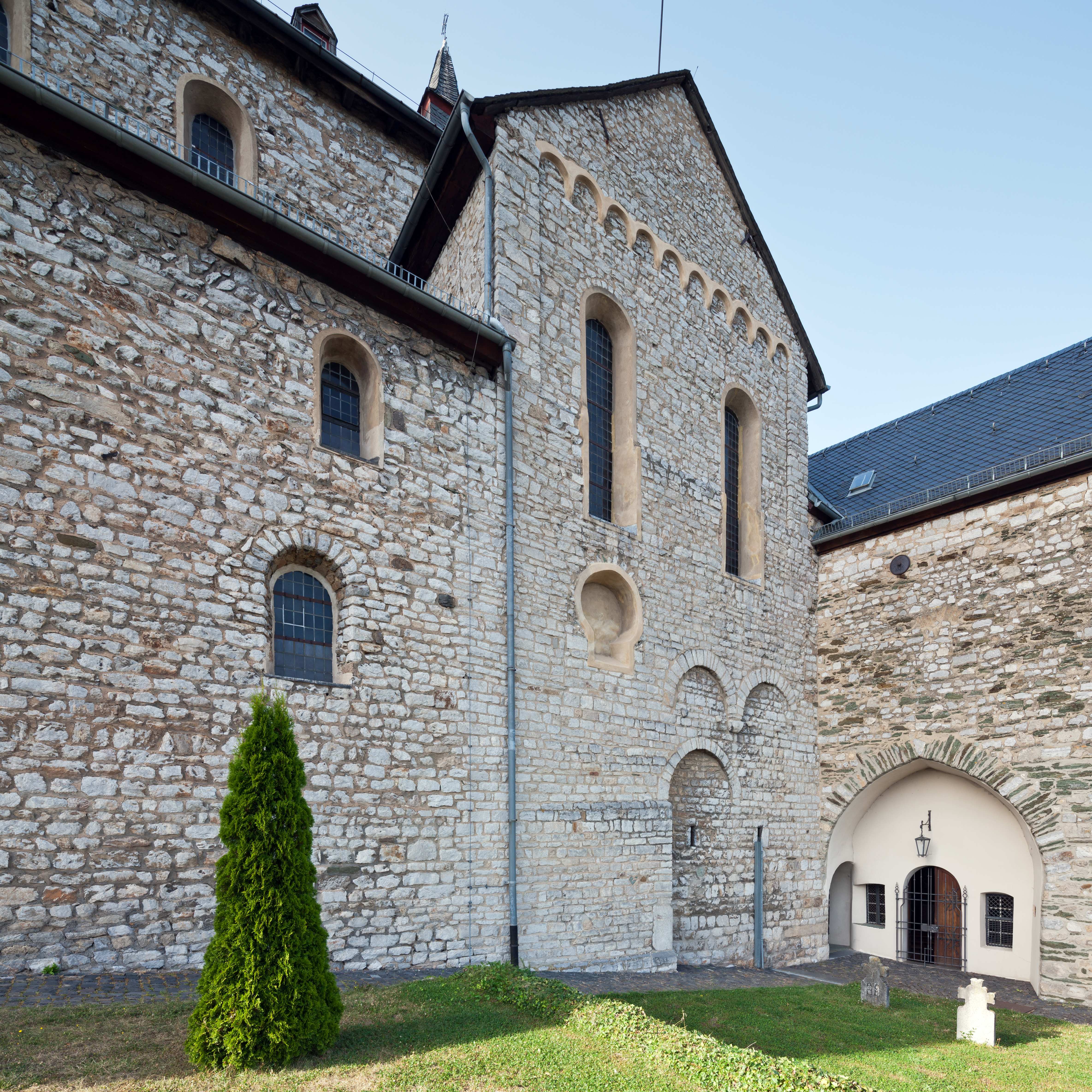 Limburg an der Lahn-Dietkirchen: St. Lubentius, transition of nave, transept and Trinity chapel up as seen from the southwest